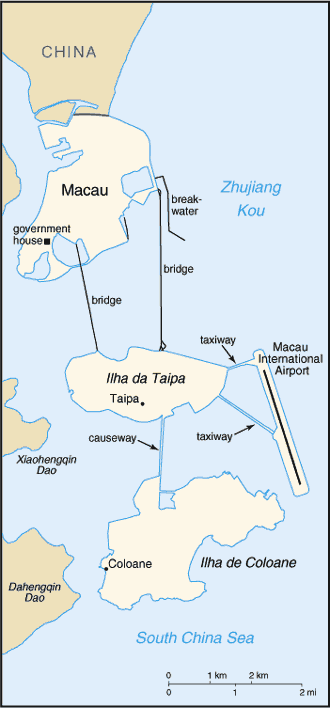 Map of Macau.